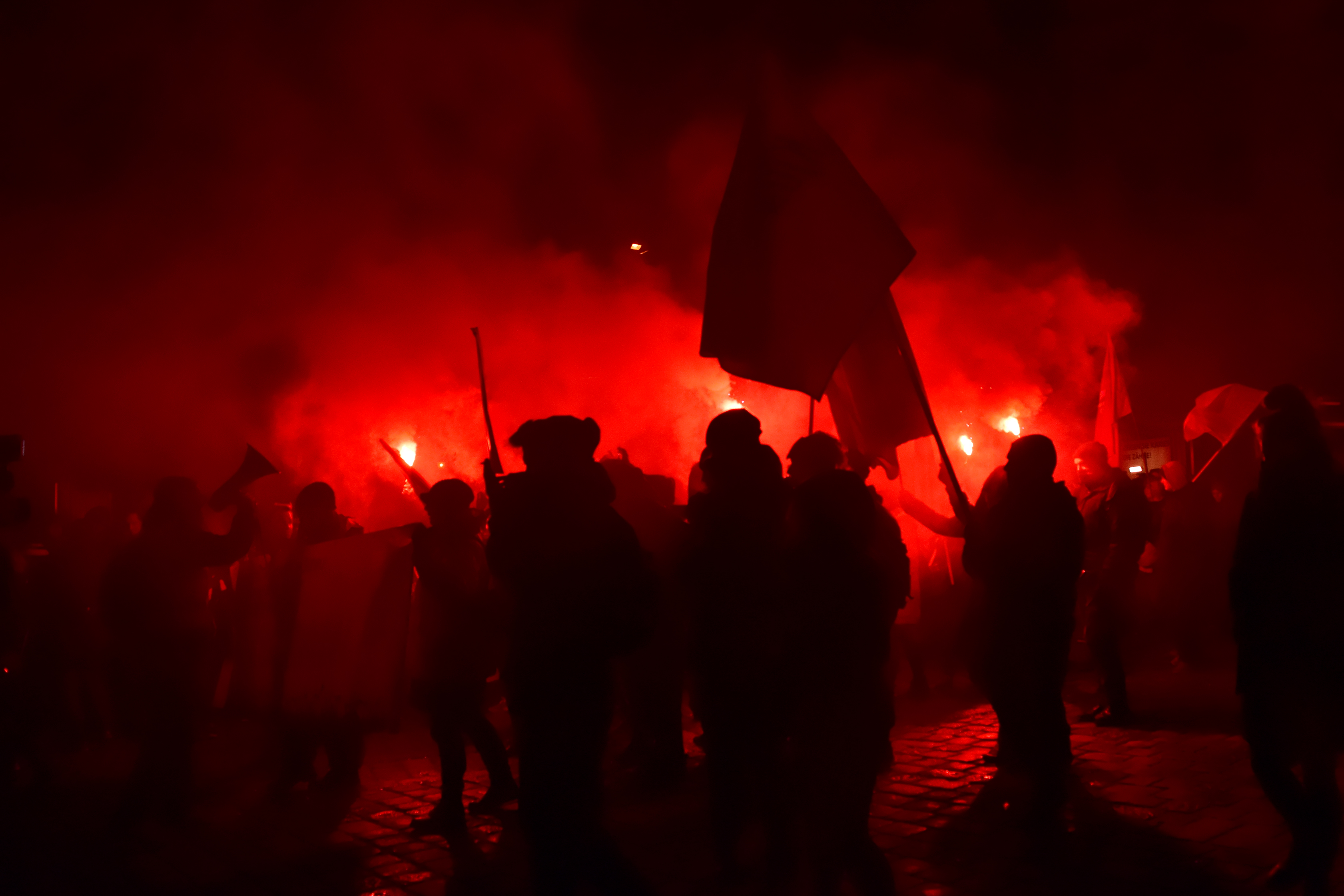 Signal flares at the Demonstration against the Wiener Akademikerball 2015